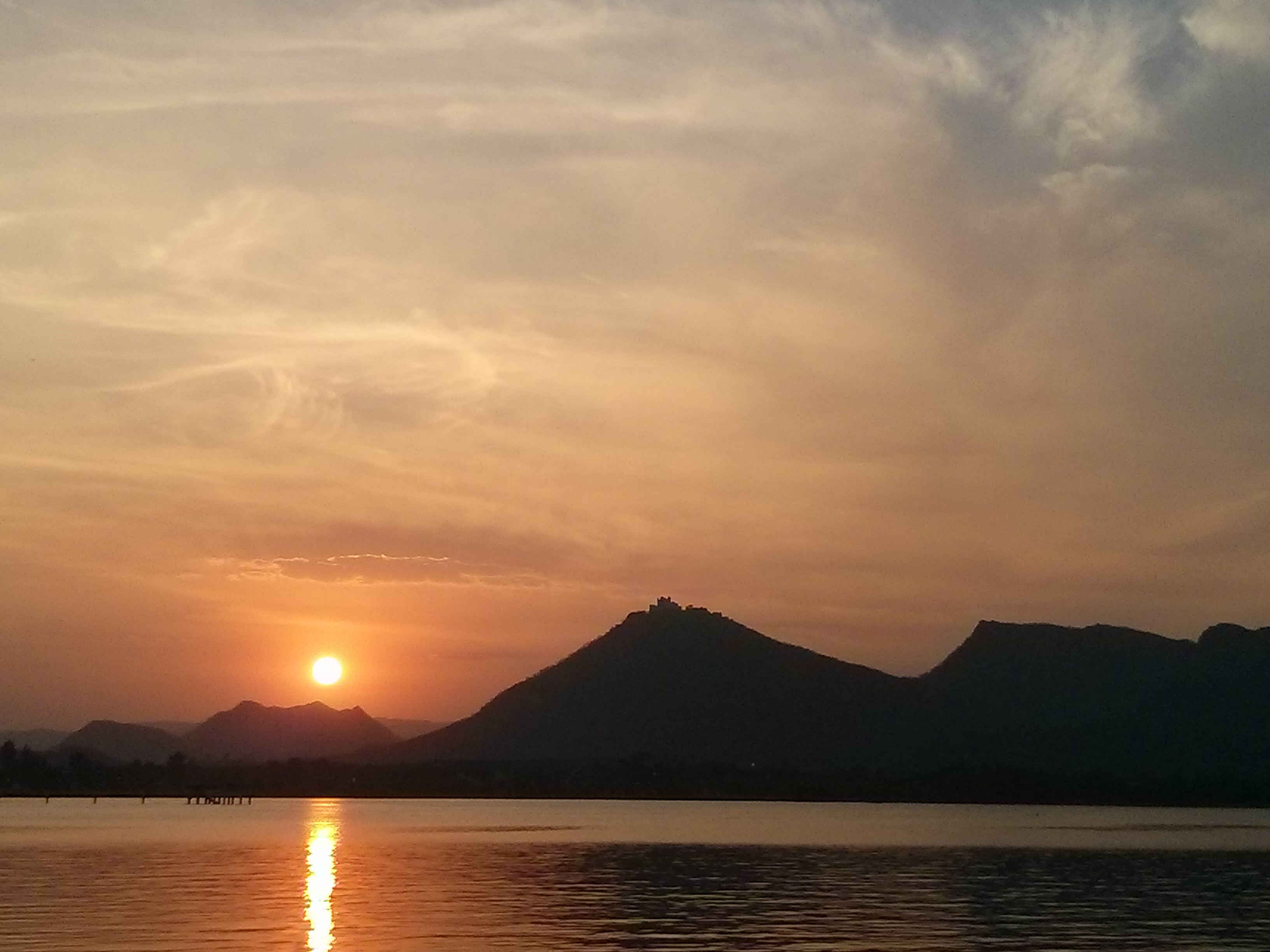 Sunset over Lake Fatehsagar, Udaipur